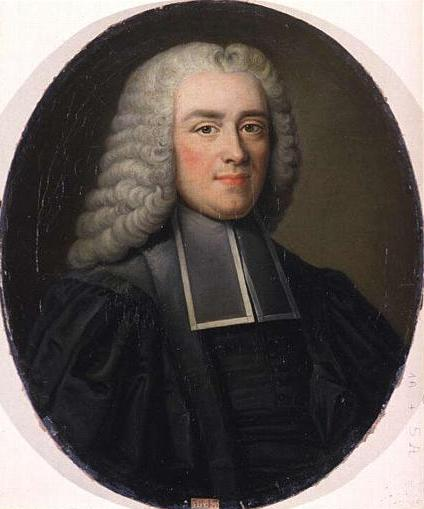 Nicolas-René Berryer, Minister of Marine of Louis XV from 1758 to 1761.